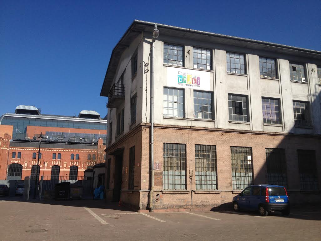 Muzeum Semafor